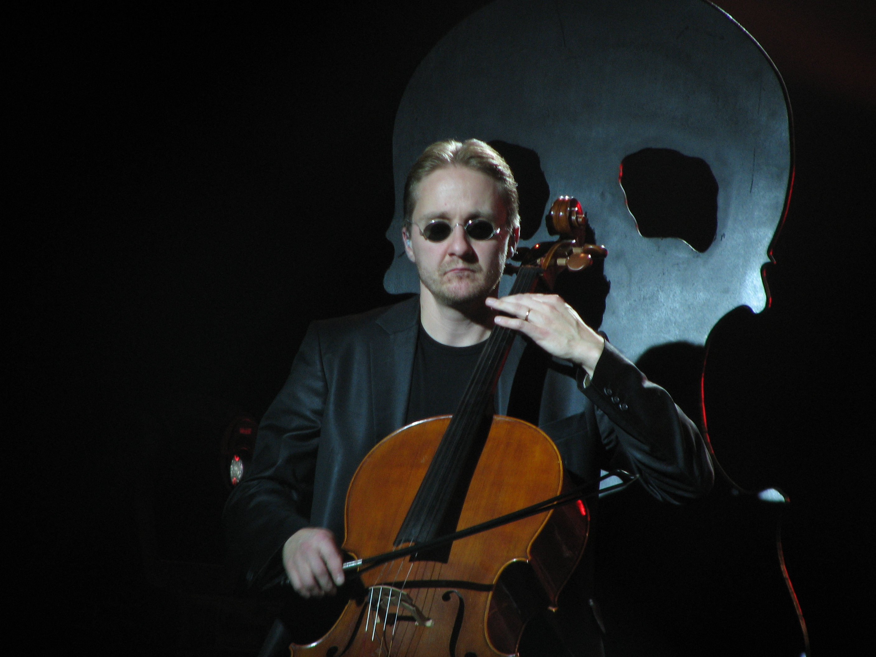 Antero Manninen with Apocalyptica. 12th October 2007, Pakkahuone Hall, Tampere, Finland.